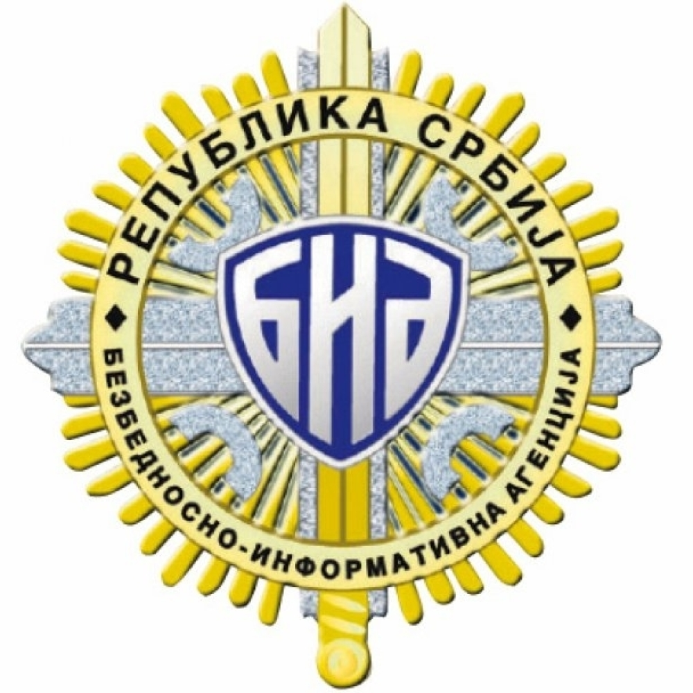 Serbian Seal of the Security Information Agency (БИА)